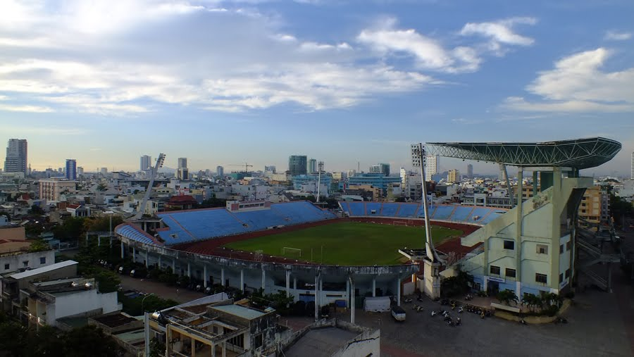 Chi Lang stadium